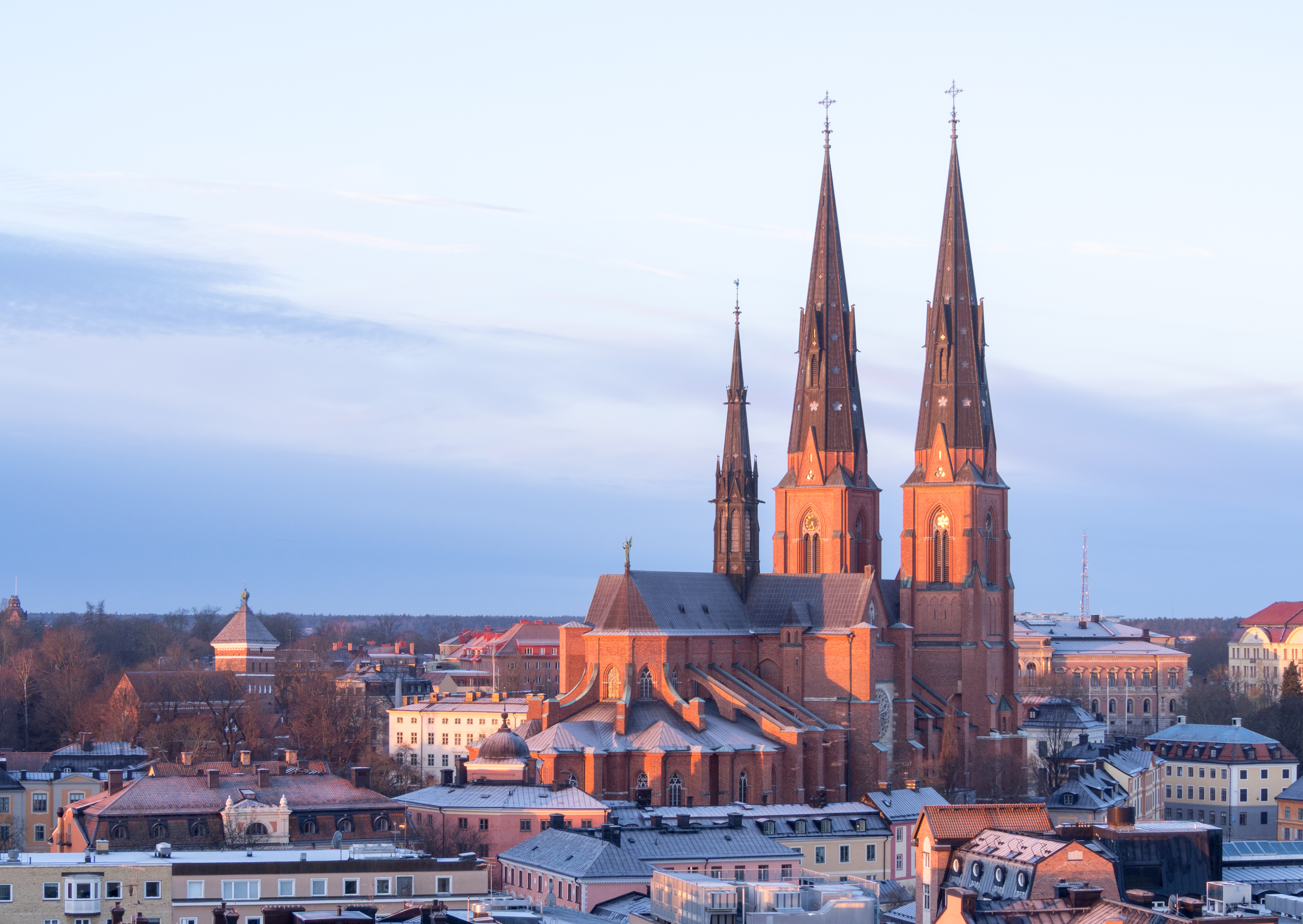 Uppsala Cathedral from an elevated viewpoint on a cold winter morning.